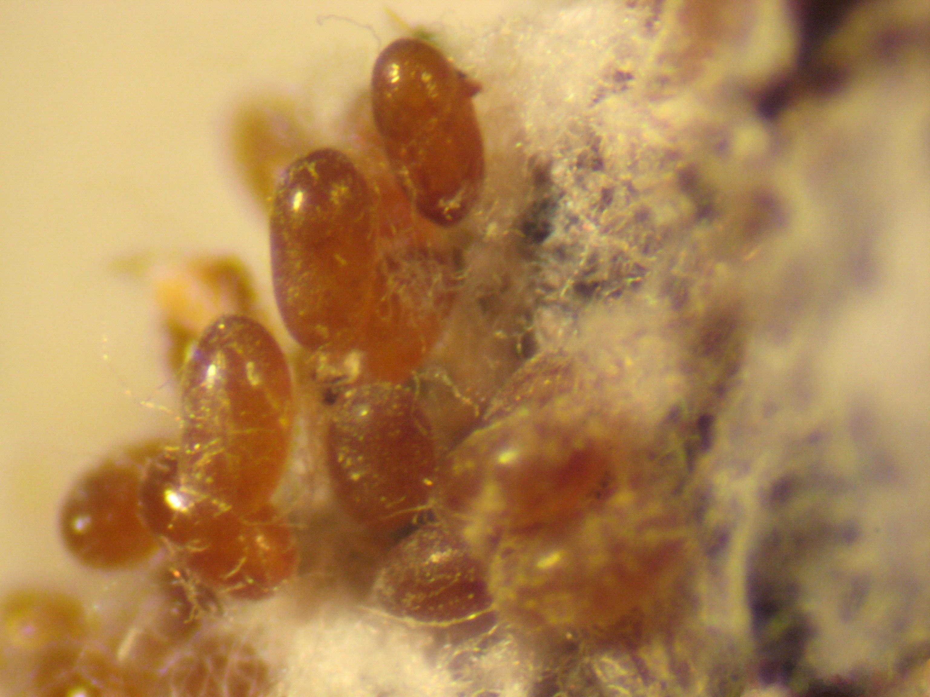 Adelges tsugae Annand Common Name: hemlock woolly adelgid Photographer: Shimat Joseph, University of Georgia, United States Descriptor: Egg(s) Image taken in: United States